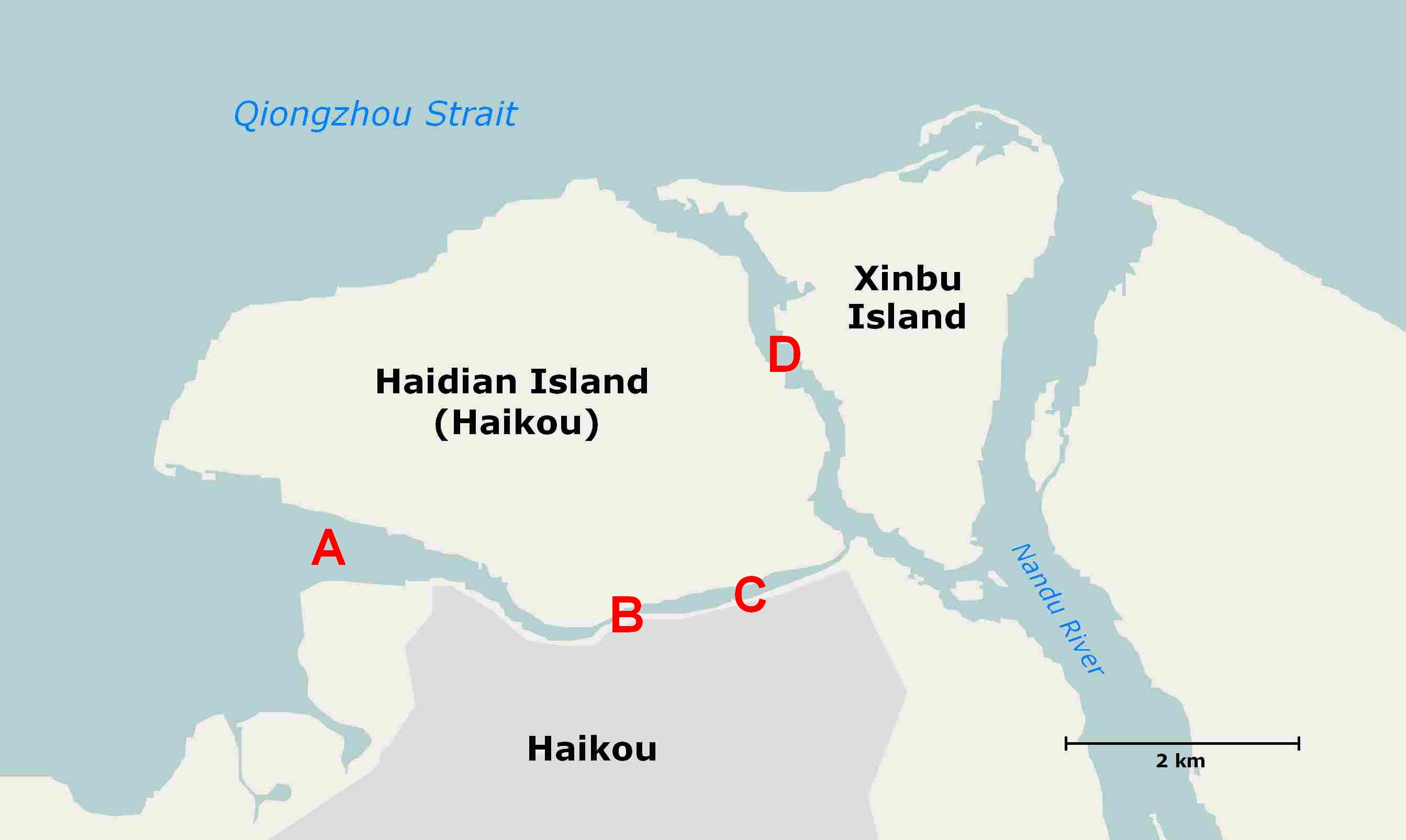 Map showing bridges that access Haidian Island, Haikou, Hainan, China. A: Haikou Century Bridge B: Renmin Bridge C: Heping Bridge D: Xinbu Bridge